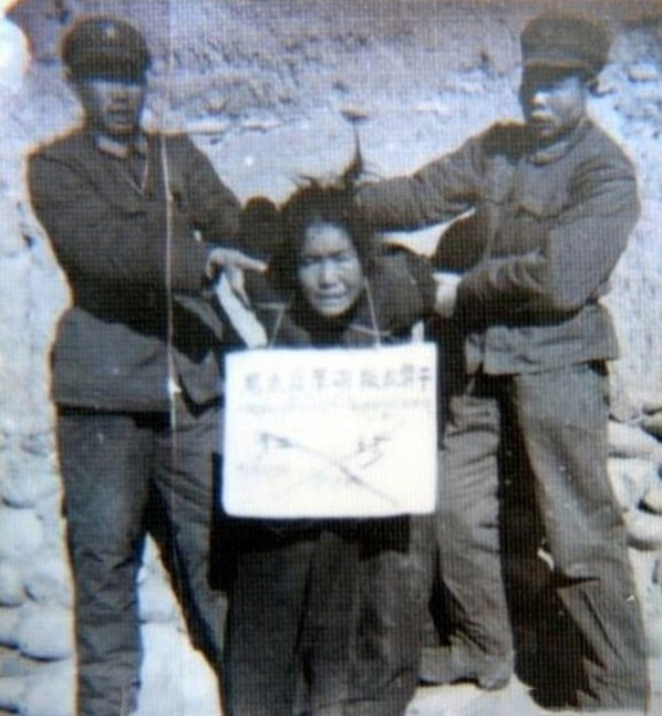 Thamzing of Tibetan woman circa 1958